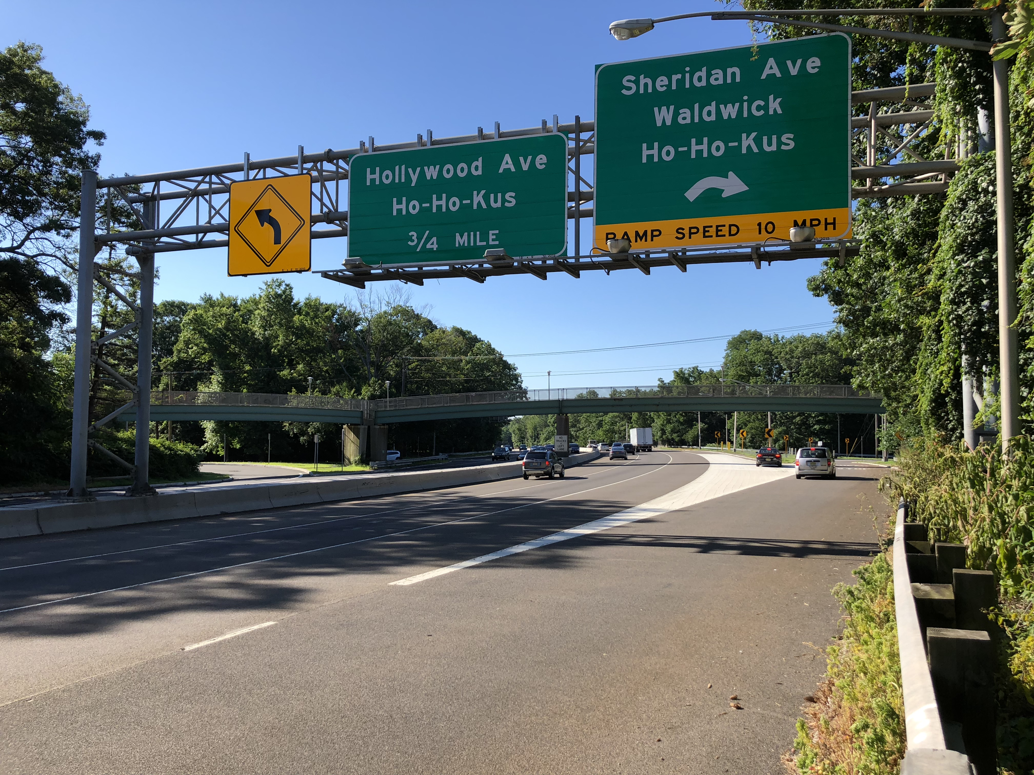 View south along New Jersey State Route 17 at the exit for Sheridan Avenue (Waldwick, Ho-Ho-Kus) in Waldwick, Bergen County, New Jersey